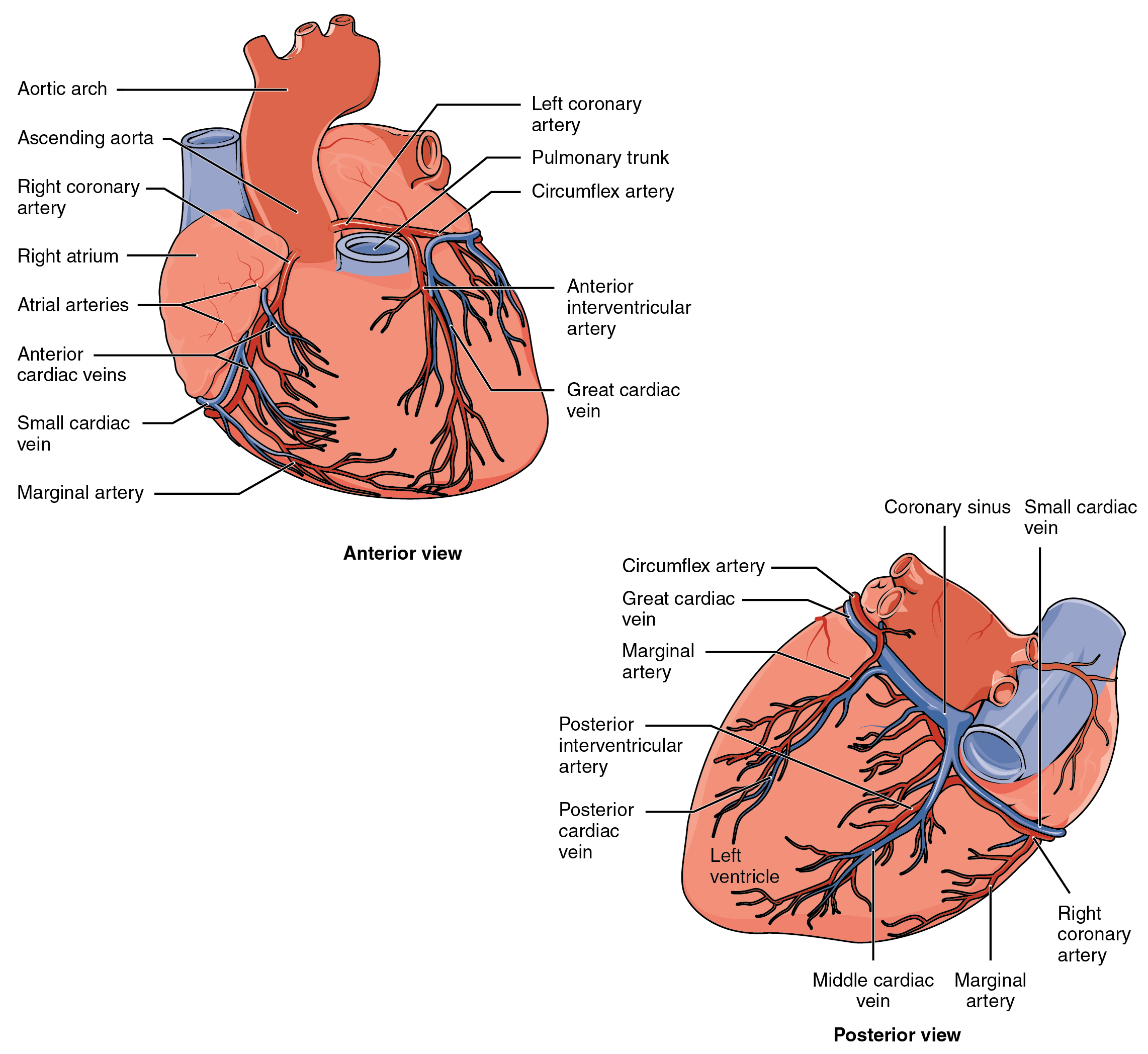 Illustration from Anatomy & Physiology, Connexions Web site. Jun 19, 2013.